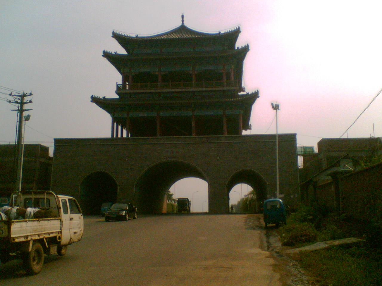 Chaoyangmen in Huanren ,Liaoning.